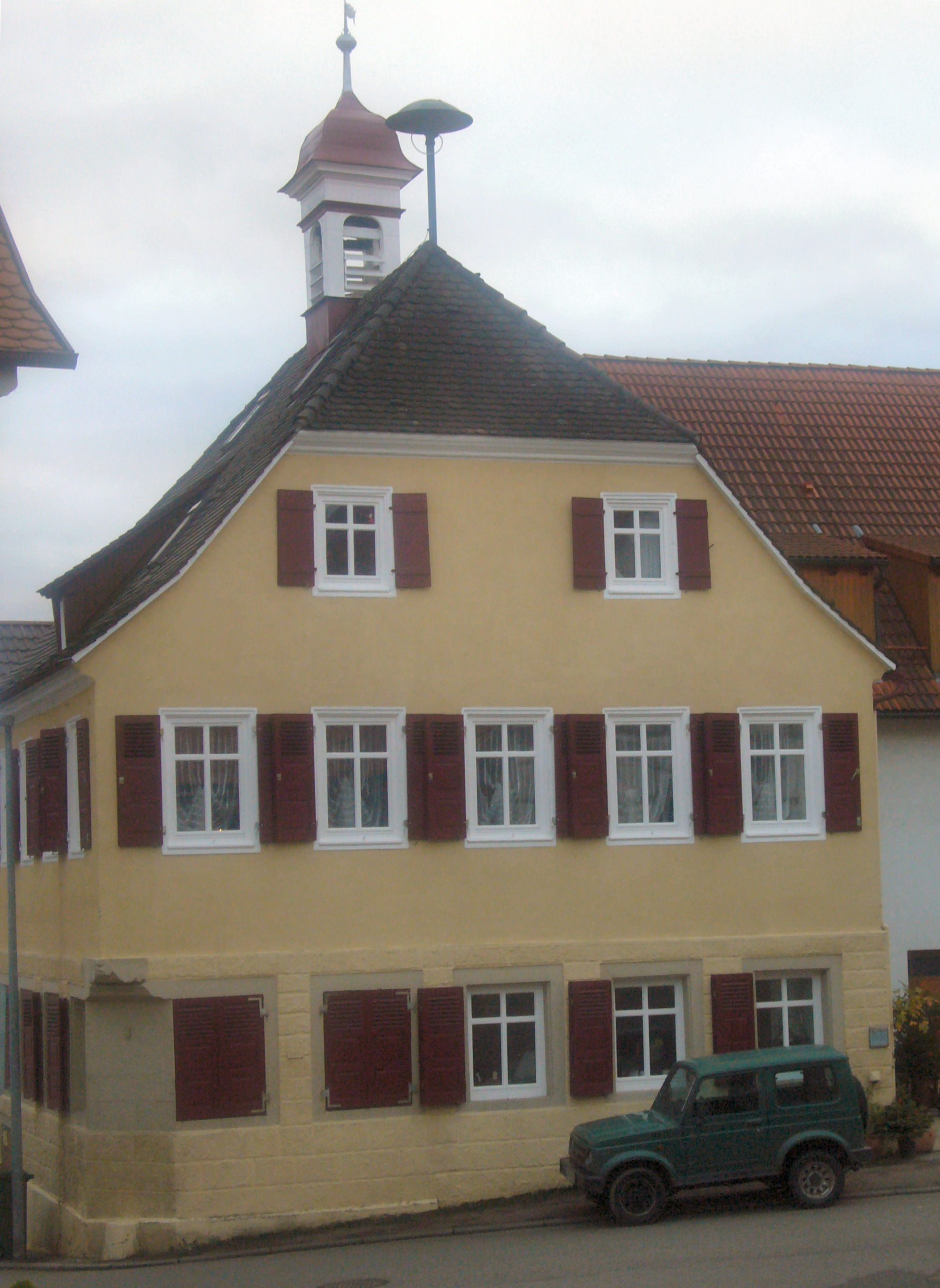 the hall of Metterzimmern edited by the owner of the house